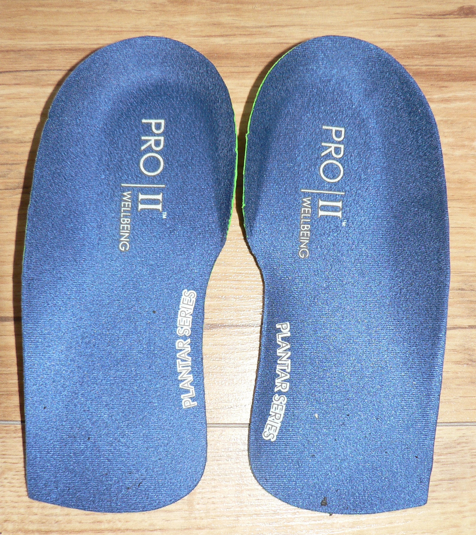 A pair of insoles to treat plantar fasciitis